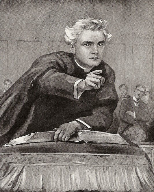 An illustration of Reginald John Campbell preaching.